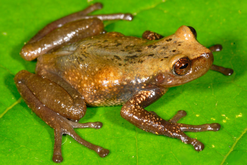 Gastrotheca antoniiochoai